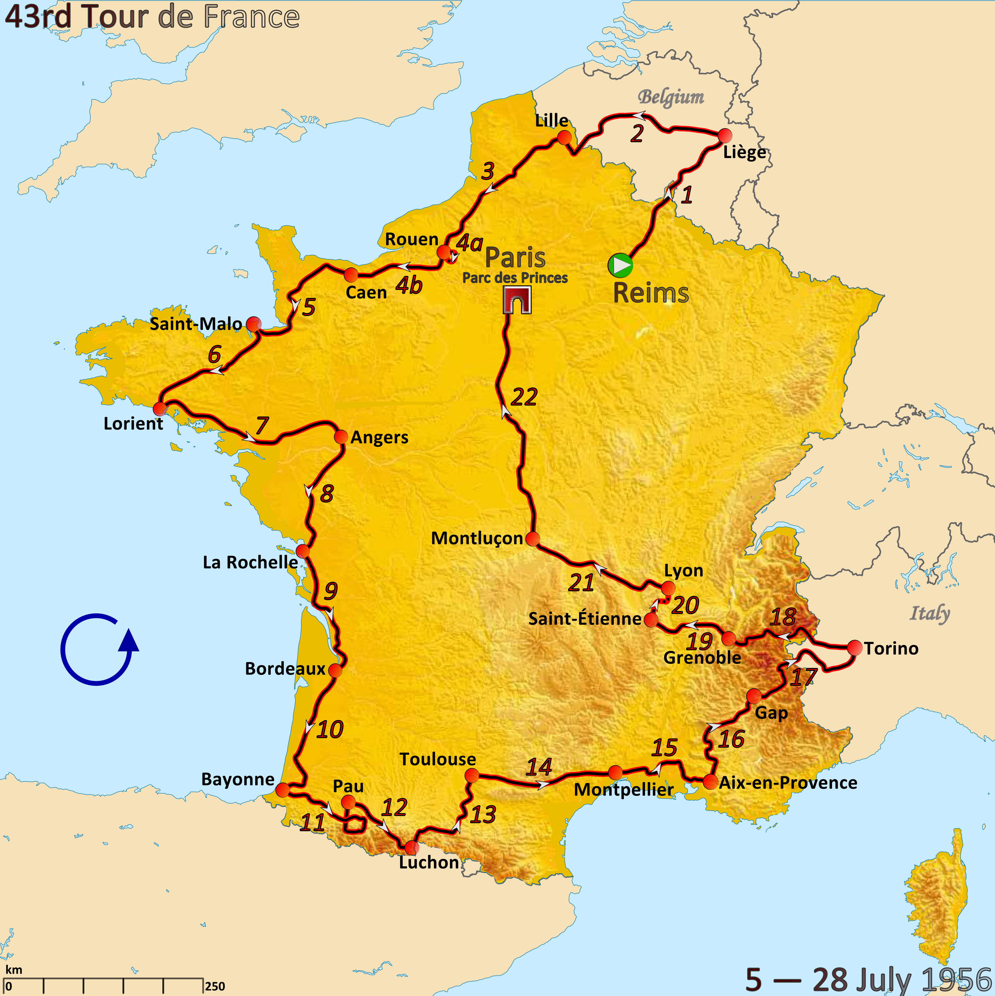 Map of the 1956 Tour de France created in Inkscape using accurate stage maps from touratlas.nl.